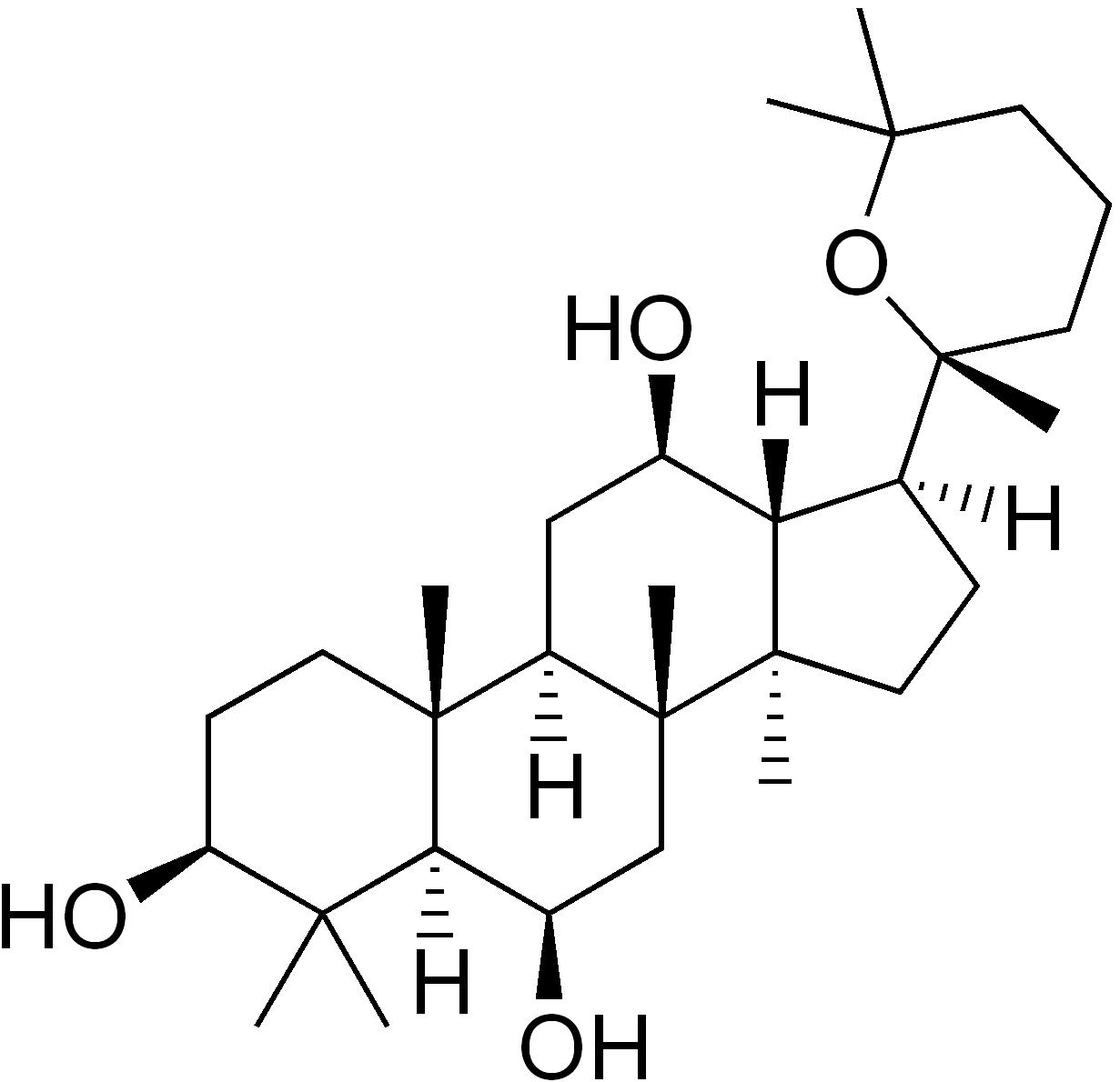 chemical structure of panaxatriol